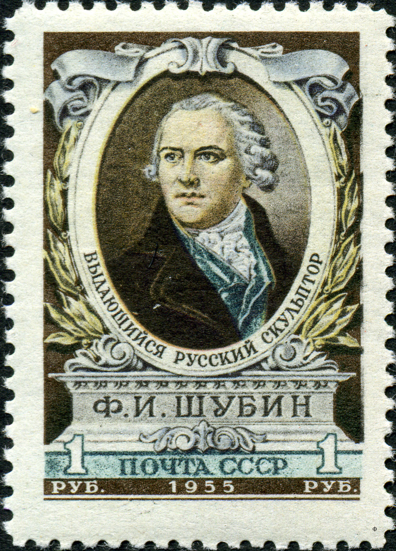 Soviet Union stamp, F. I. Shubin, Russian sculptor (1740-1805), self-portrait; 1955, 1 rouble, used, CPA No. 1856.